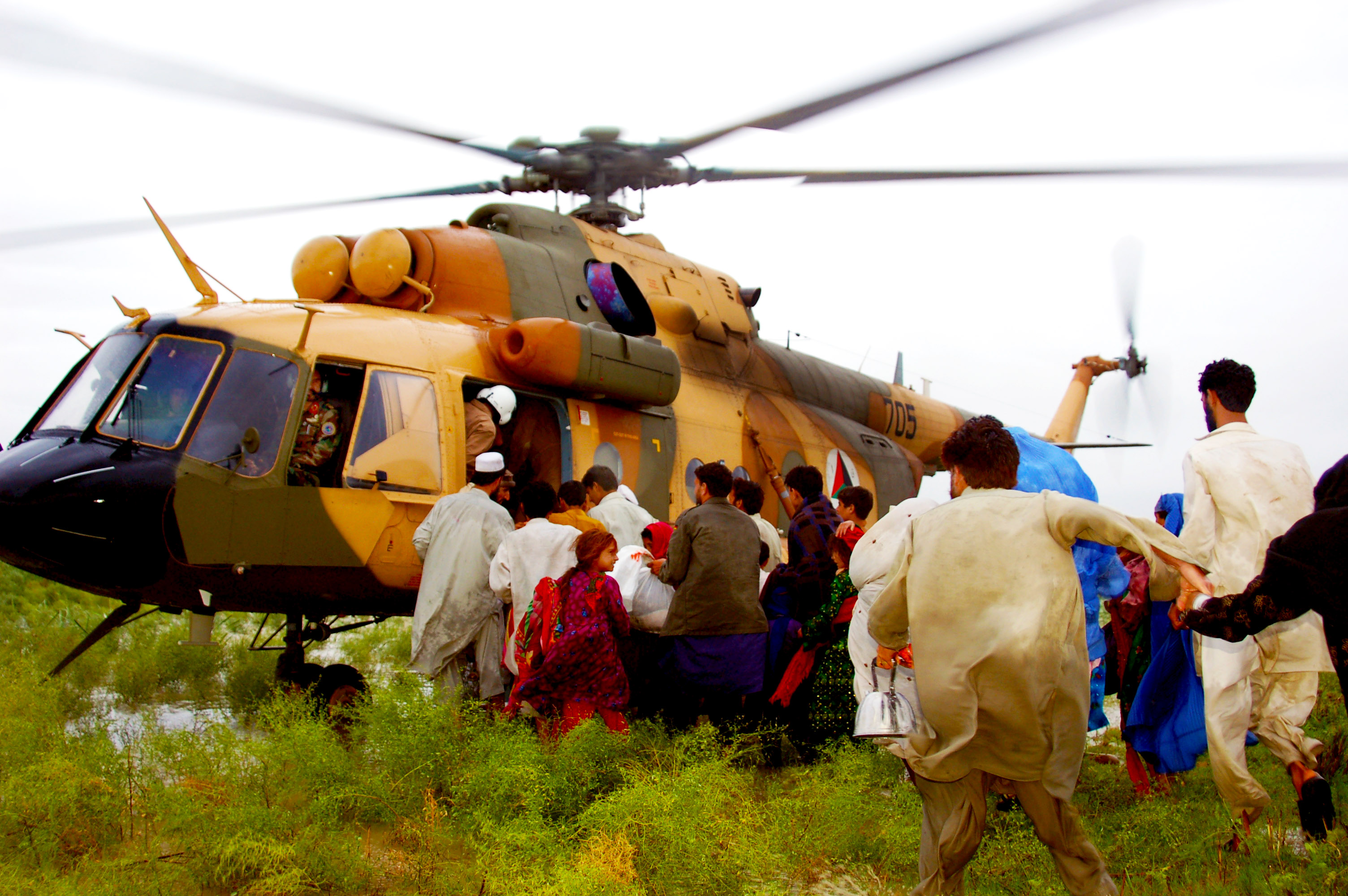 Lt. Col. Bahadur, Afghan Air Force rescues a small child on July 29, 2010 when the Afghan Air Force responded with two Mi-17s and aircrew accompanied by United States Air Force Air Advisors to an urgent request to begin rescuing people overcome by rapidly rising flood waters at the confluence of the Kabul and Laghman Rivers, about 11 miles west of Jalalabad. Over 2,100 people were saved, by the AAF and their Mi-17s from the high threat raging flood waters most of them under the threat of foreign insurgent fighters. (Courtesy photo by Maj. Kazim, Afghan Air Force/RELEASED).